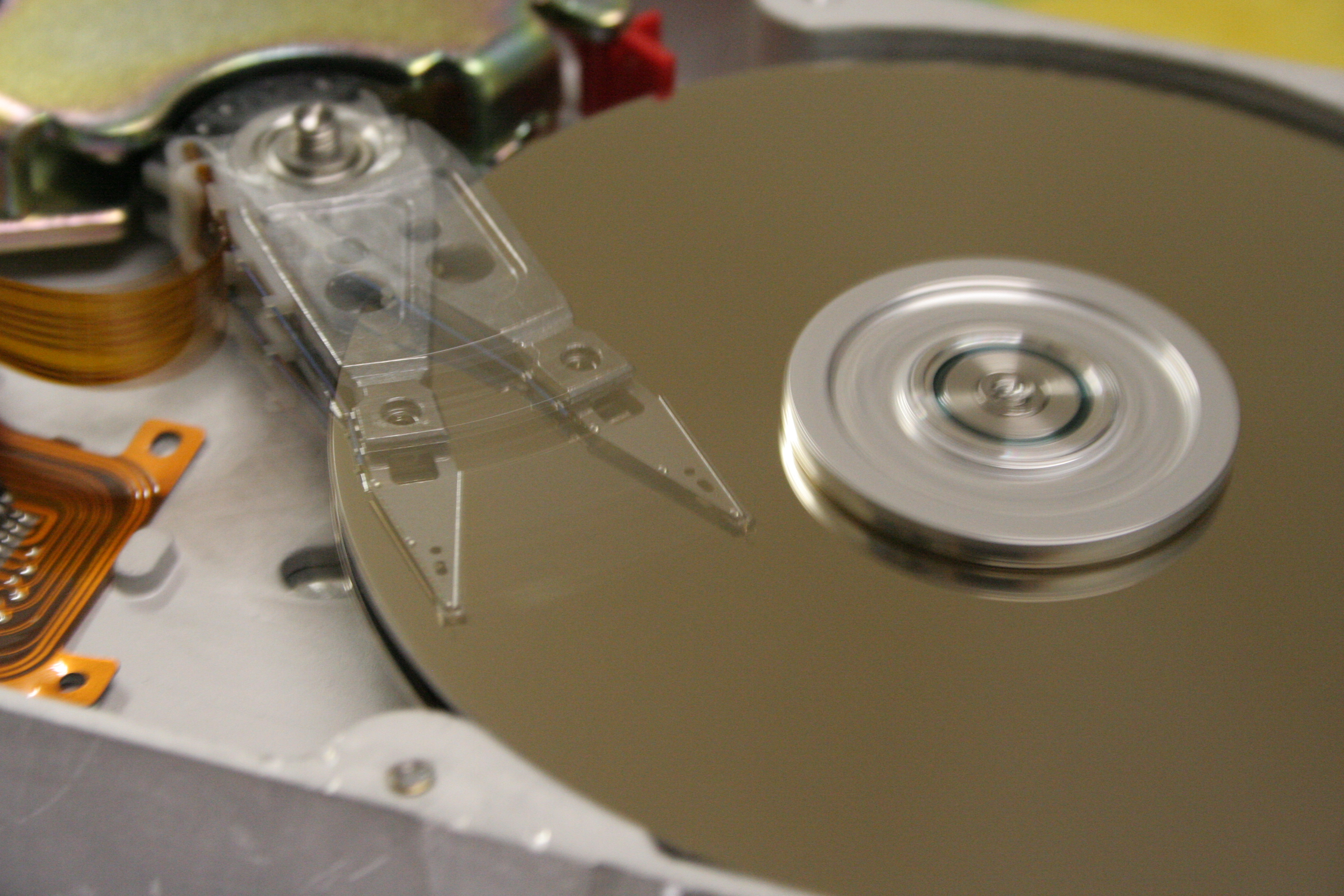 Picture of a spinning hard disk